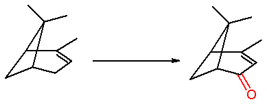 Production of verbenone by oxidating pinene